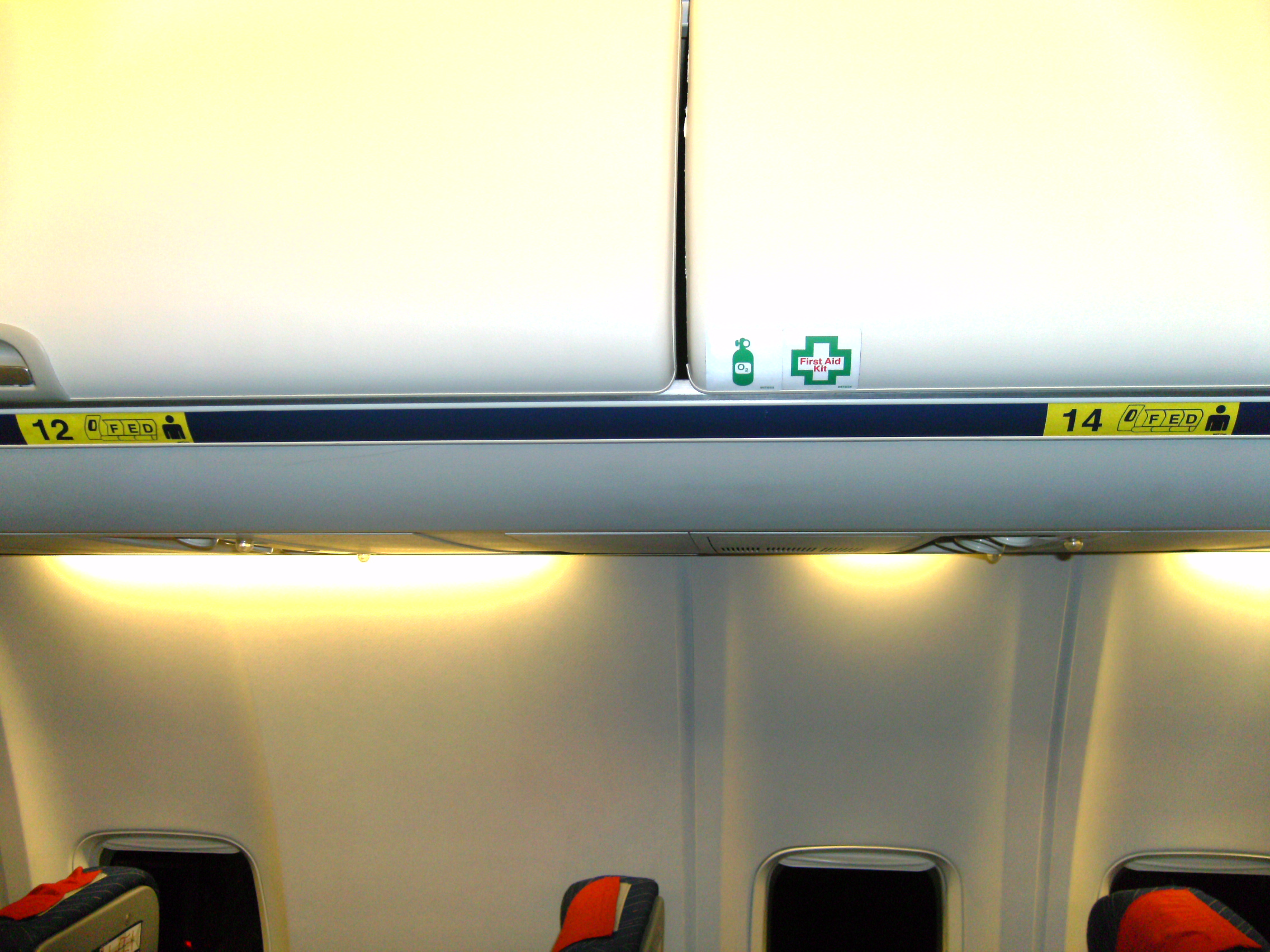 Seat 13 missing on a Ryan Air plane. This is called Triskaidekaphobia.